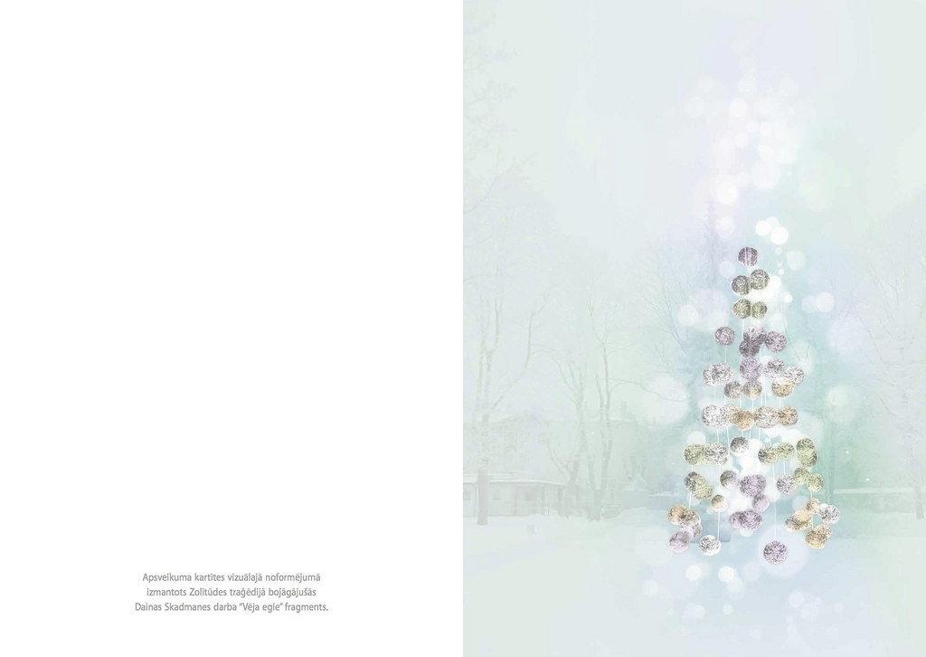 Veja egle - valsts prezidenta kartina tika izmantota. Daina Skadmane